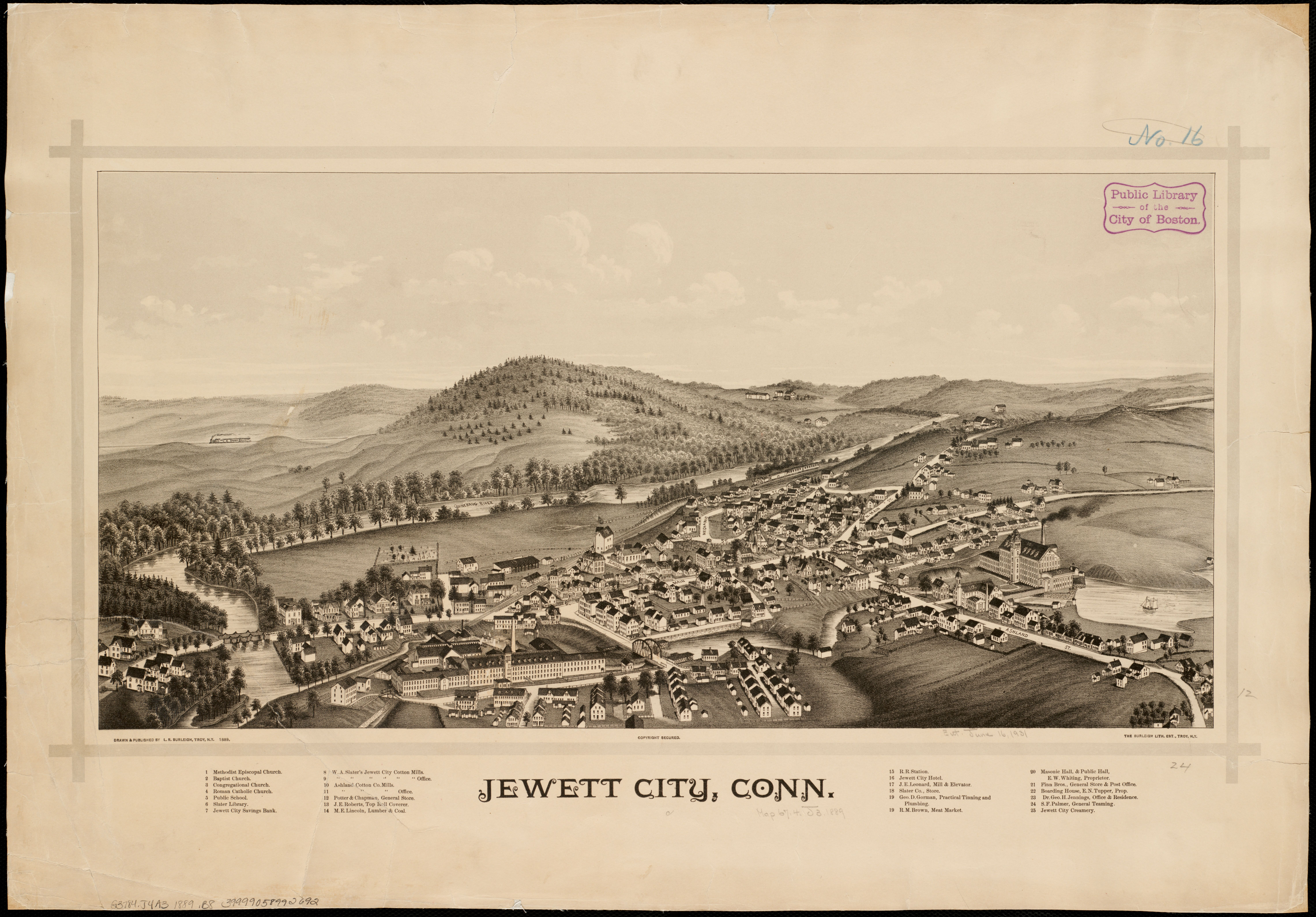 Zoom into this map at . Author: Burleigh, L. R. Publisher: L.R. Burleigh Date: 1889. Location: Jewett City (Conn.) Scale: Not drawn to scale. Call Number: G3784.J4A3 1889.B8